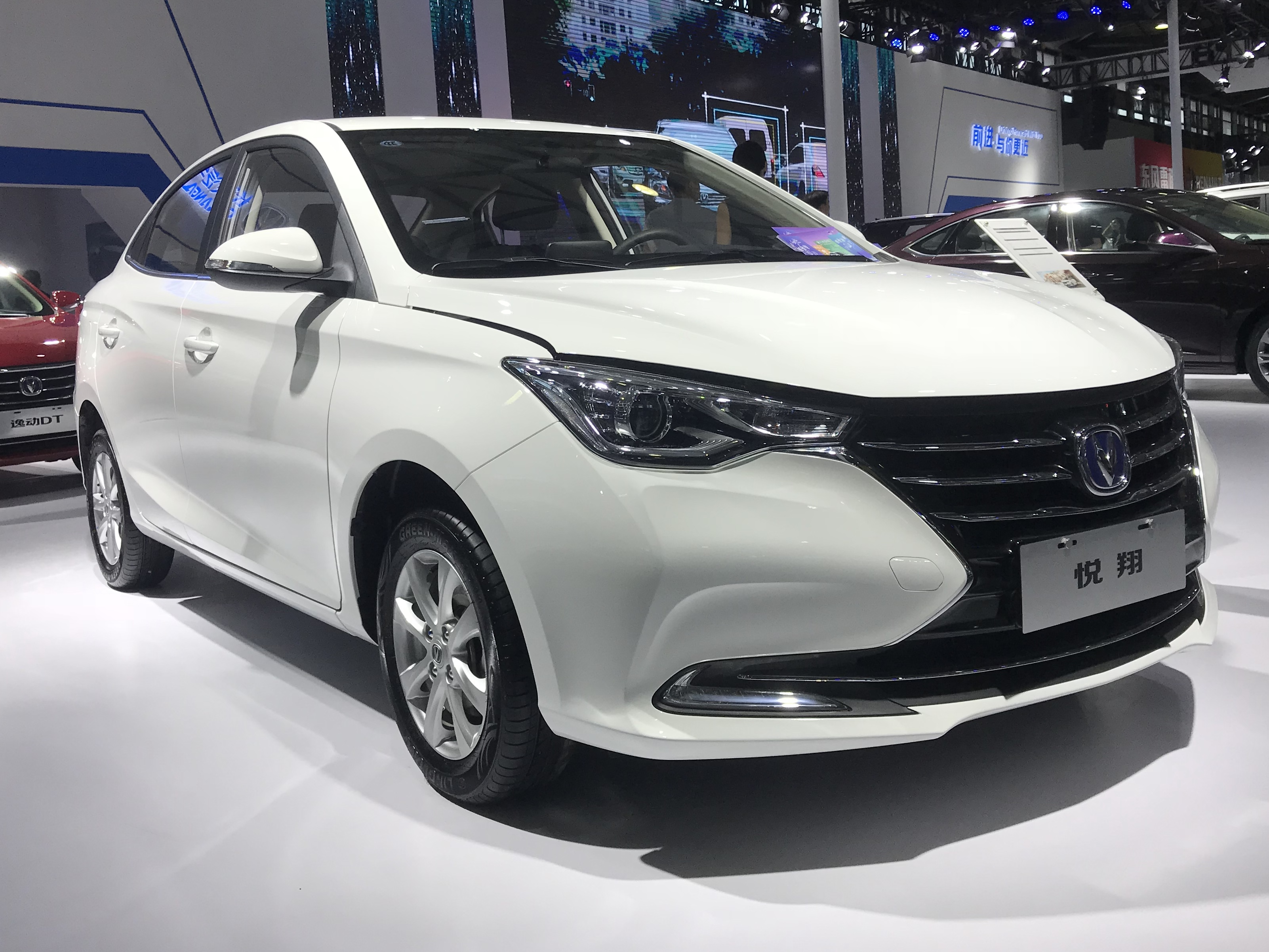 Changan Alsvin II front